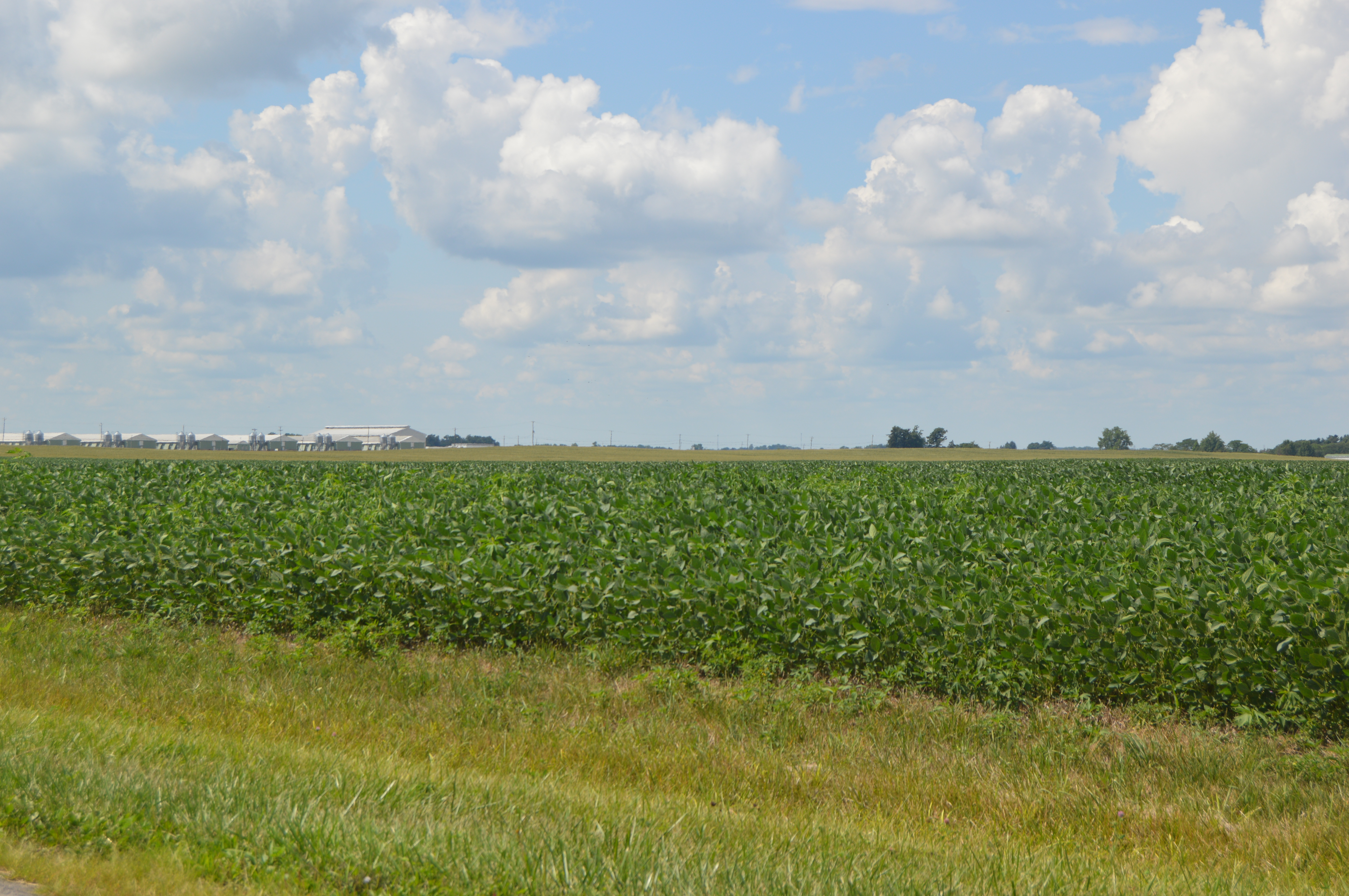 Fields on the northern side of Parsons Road east of Croton Road, south of Hartford, in Hartford Township, Licking County, Ohio, United States.